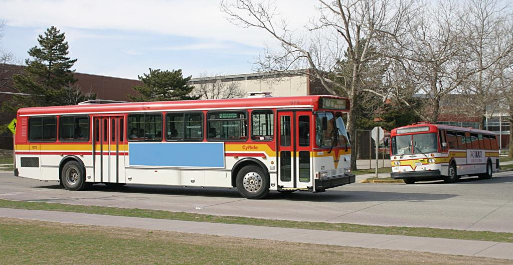 ISU notables#CyRide is the transit agency for Ames, Iowa that serves Iowa State University Pictured is bus #975 (left) and #980 (right) [1]: #975 is a 2002 Orion Bus Industries V bus #980 is a 1988 Orion Bus Industries I bus